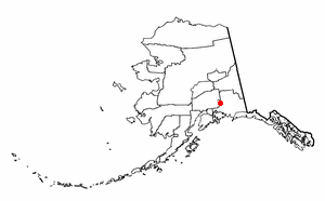 Adapted from Wikipedia's AK borough maps by Seth Ilys.